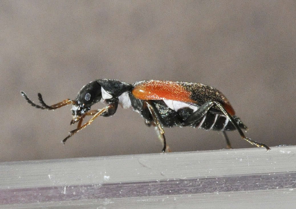 Anthocomus equestris (Fabricius, 1781). Germany: Niedersachsen, Göttingen.